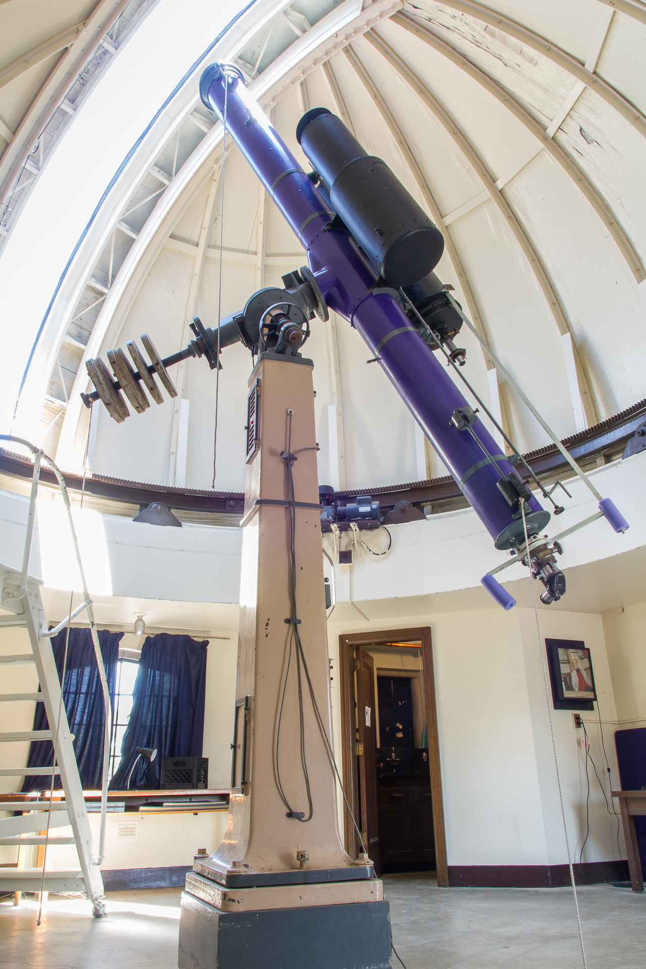 The Hume Cronyn Memorial Observatory telescopes. The large purple telescope is the 25.4cm f/17 Perkin Elmer refractor. Attached to the refractor we have a black telescope in the background, which is a 30cm f/17 Cassegrain reflector, and a smaller black telescope in the foreground being a 20cm f/2.7 Schmidt camera.